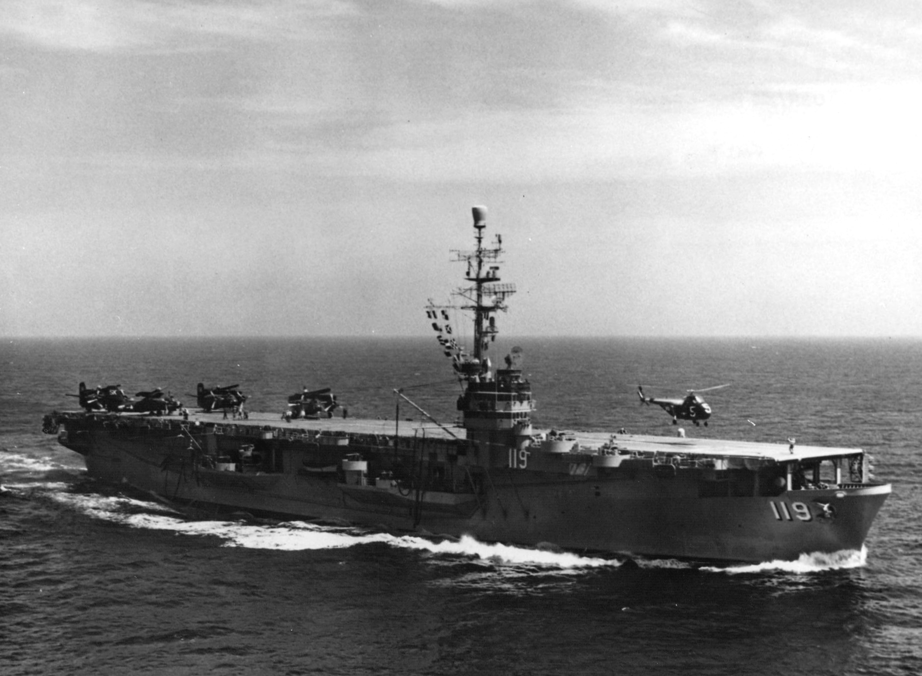 The U.S. Navy escort carrier USS Point Cruz (CVE-119) underway with an Sikorsky HO4S-3S of Helicopter Antisubmarine Squadron HS-4 and Grumman S2F-1 Trackers of Antisubmarine Squadron VS-25 on board.